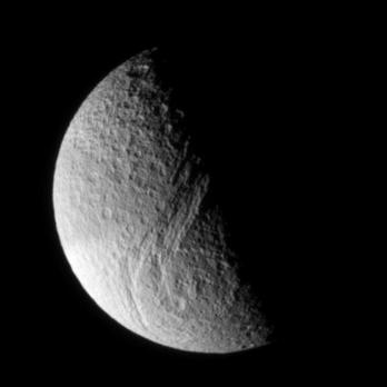 Ithaca Chasm, a fracture valley that runs across Tethys (a moon of Saturn). Original caption reads: " Tethys' Great Rift" This dazzling view of Tethys shows the tremendous rift called Ithaca Chasma, which is 100 kilometers (60 miles) wide in places, and runs nearly three-fourths of the way around the icy moon. Tethys is 1,060 kilometers (659 miles) across. Adjacent to the great Chasma is a large multi-ring impact basin with a diameter of about 300 kilometers (185 miles). The inner ring of the basin is about 130 kilometers (80 miles) in diameter. The moon's heavily cratered face is indicative of an ancient surface. This view shows principally the Saturn-facing hemisphere of Tethys. The image was taken in visible light with the Cassini spacecraft narrow angle camera on Dec. 15, 2004, at a distance of approximately 560,000 kilometers (348,000 miles) from Tethys and at a Sun-Tethys-spacecraft, or phase, angle of 91 degrees. The image scale is about 3 kilometers (2 miles) per pixel. "